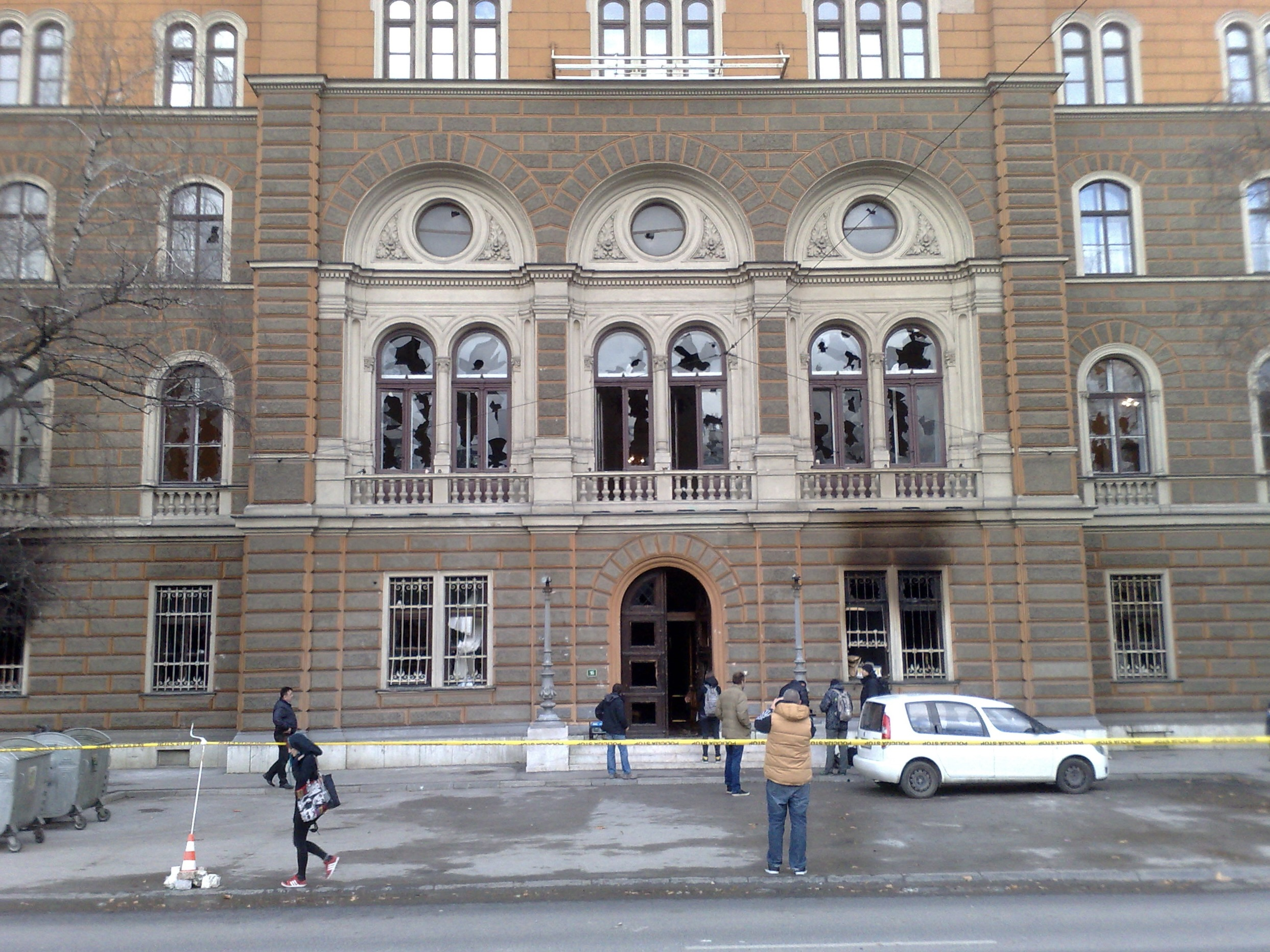 Sarajevo, Presidency building, day after riots picture taken February 8 2014; broken windows